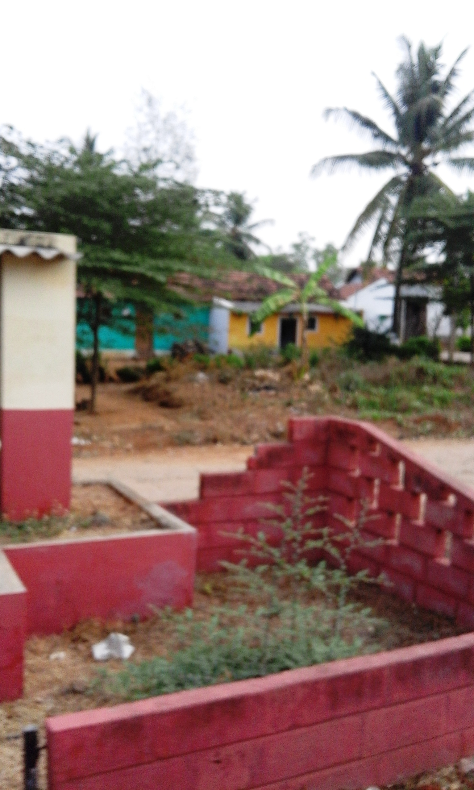 Mananthavady Road, Mysore district, Karnataka province, India.